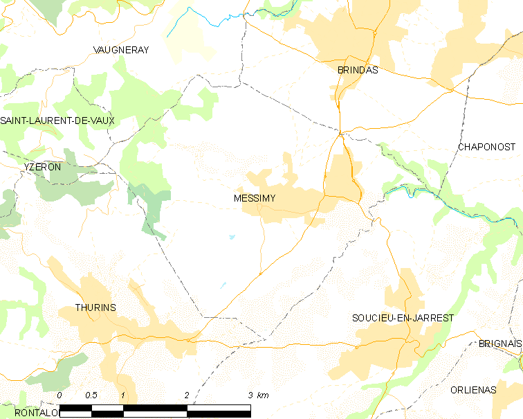 Map of French municipality